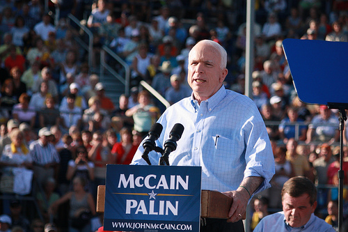 John McCain at a rally in Washington, Pennsylvania on August 30, 2008